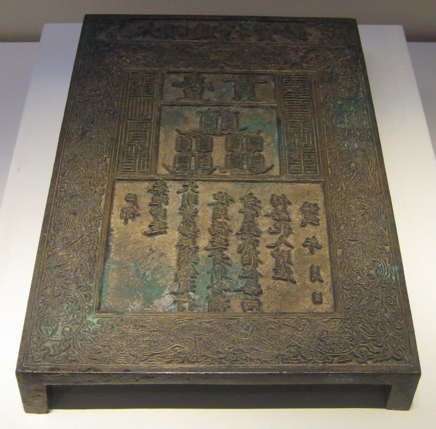 Copperplate for printing the Great Ming one string banknote. Ming Dynasty (1368-1644).